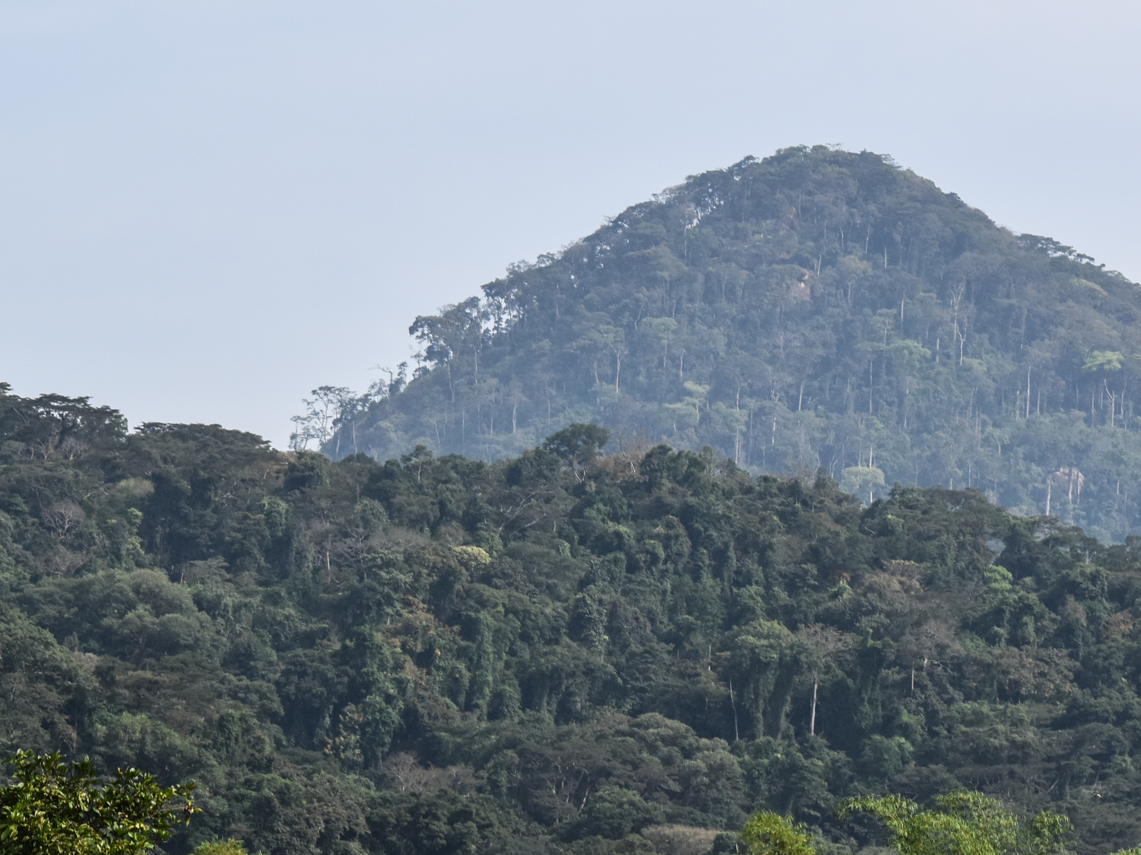 Landscape of Ziama Massif